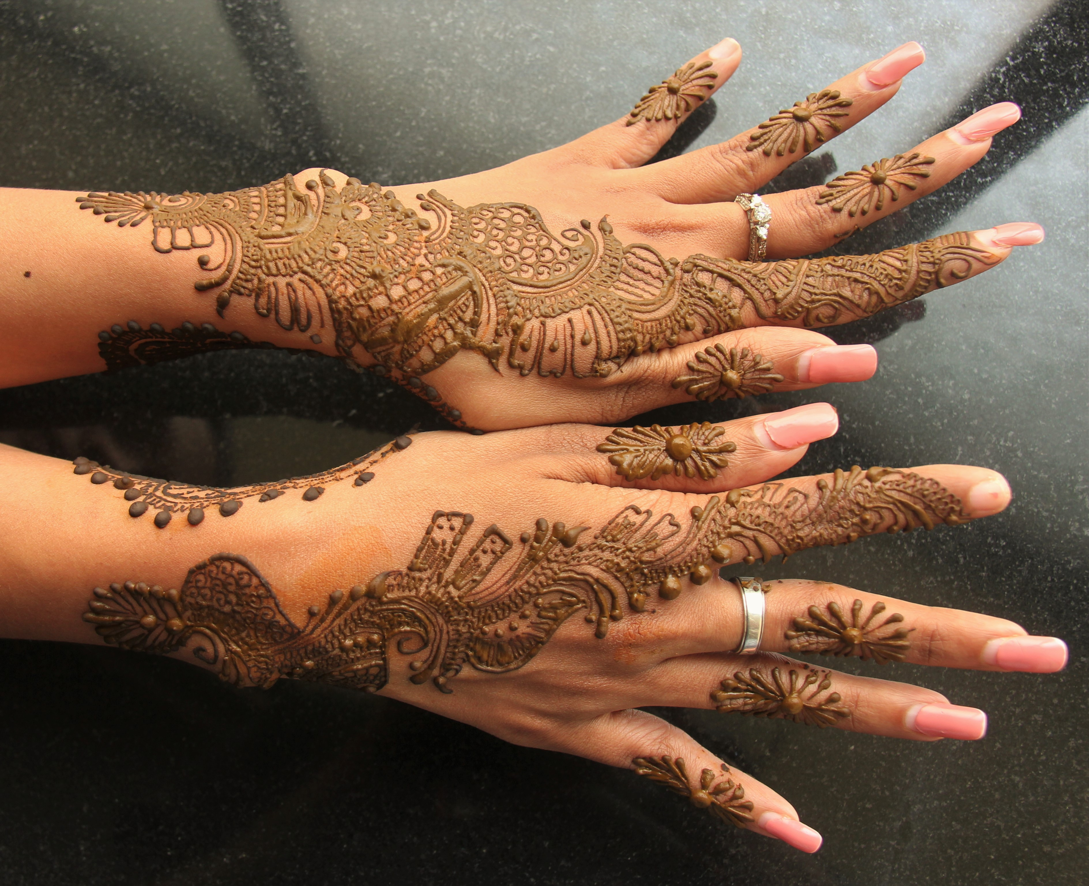 Mehndi (Hena) applied at back of both hands